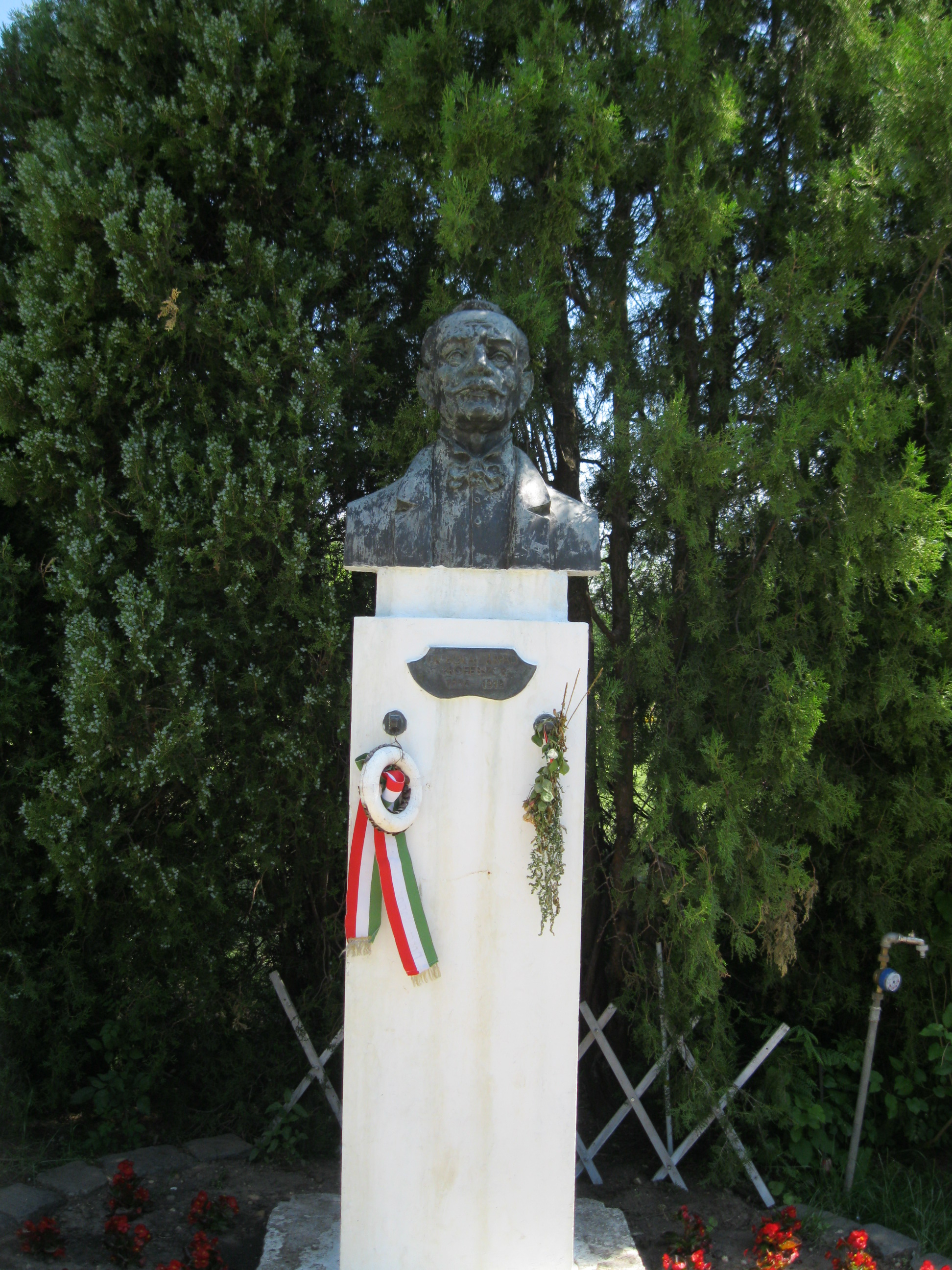 Bust of Árpád Bókay in Budapest District XVIII, Bókay Garden (at the Szélmalom Street main entrance). Sculptor: Előd Kocsis. Erected in 1997.